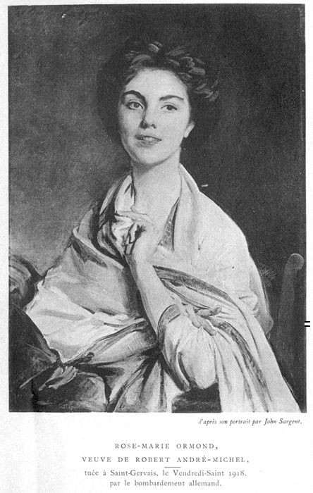 After John Singer Sargent (American, 1856-1925) : Rose-Marie Ormond (1893-1918), portrait of the later Madame Robert André-Michel (1893-1918)Private collection Oil on canvas? Size? Jpg: Friend of the JSS Gallery